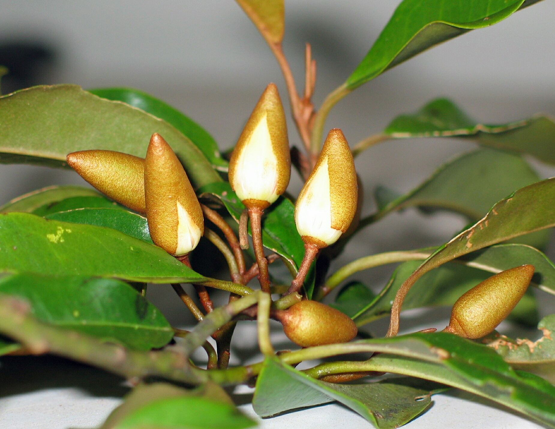 Galbulimima baccata (Himantandraceae) is considered to belong to one of the world's most primitive flowering plant families. It is a tall tree and grows in well developed rainforest in north-east Queensland and south-east Queensland. Although called many names, it is commonly referred to as either “Magnolia" or “Pigeonberry Ash".